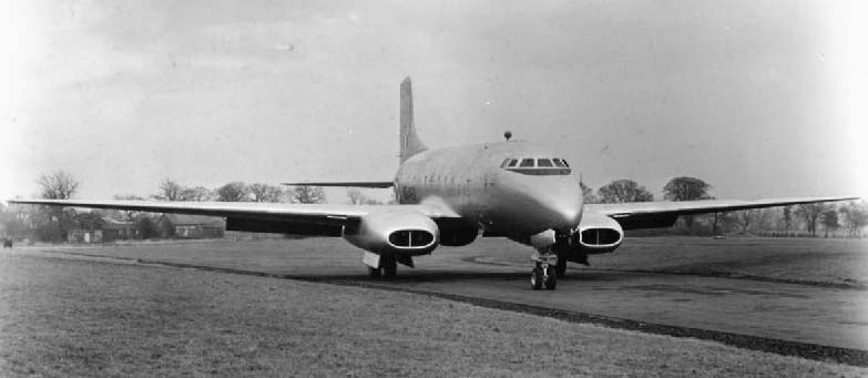 Avro Ashton Mk 3 on the ground.